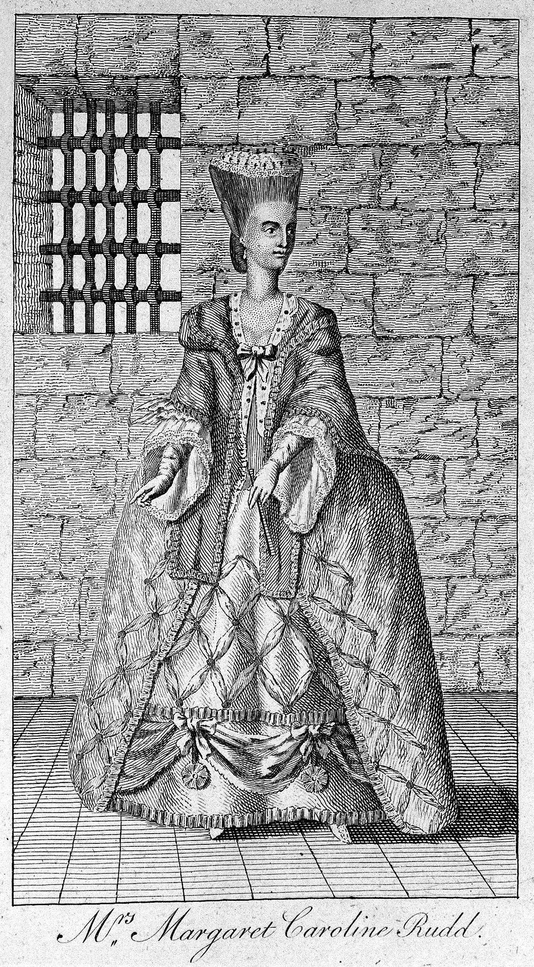 Portrait of Mrs Margaret Caroline Rudd. Rare Books Keywords: LAW; Jurisprudence; Margaret Caroline Rudd